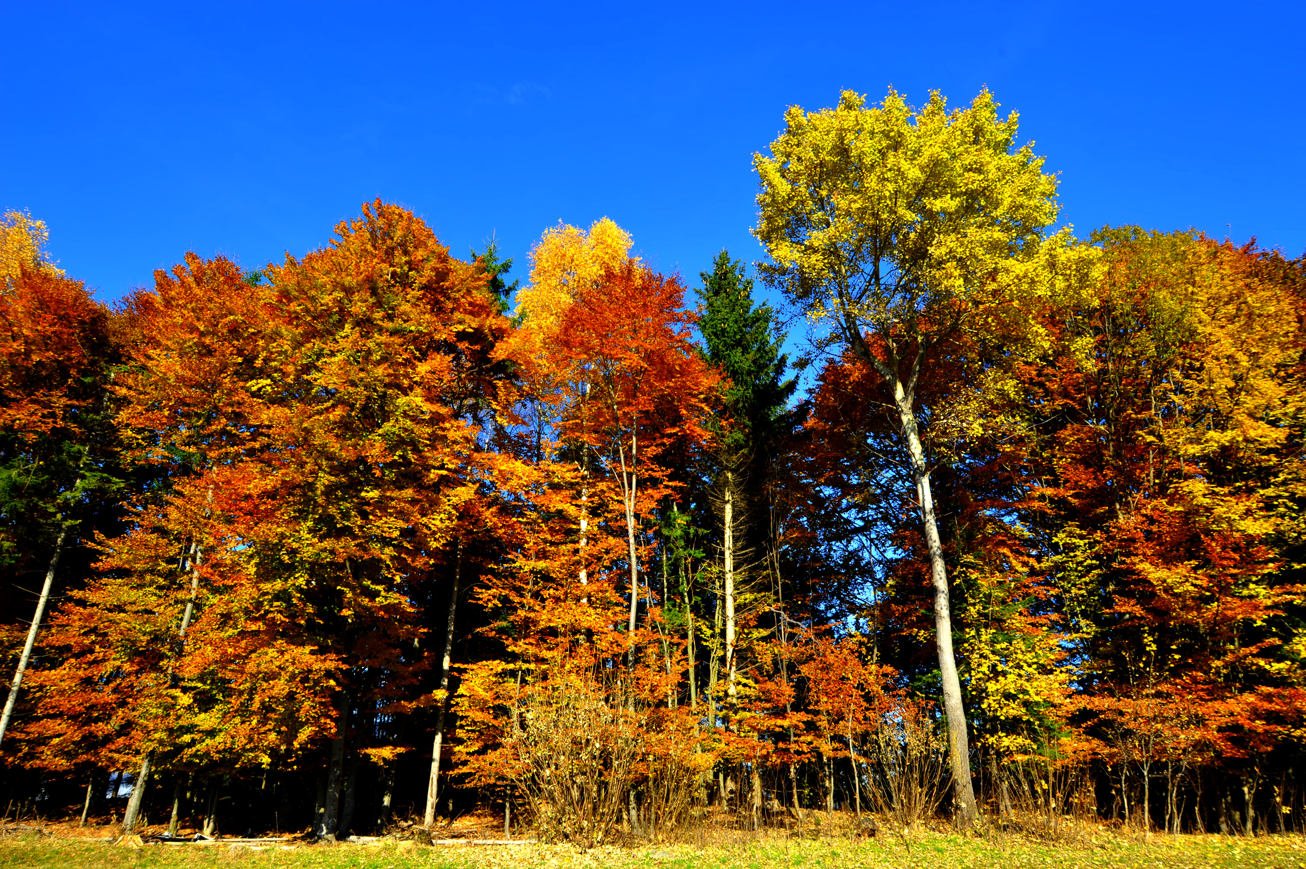 Autumnly deciduous forest near the hamlet Tauern in the municipality Ossiach, district Feldkirchen, Carinthia, Austria, EU